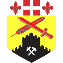 small coat of arms of the city and municipality of Despotovac in Serbia